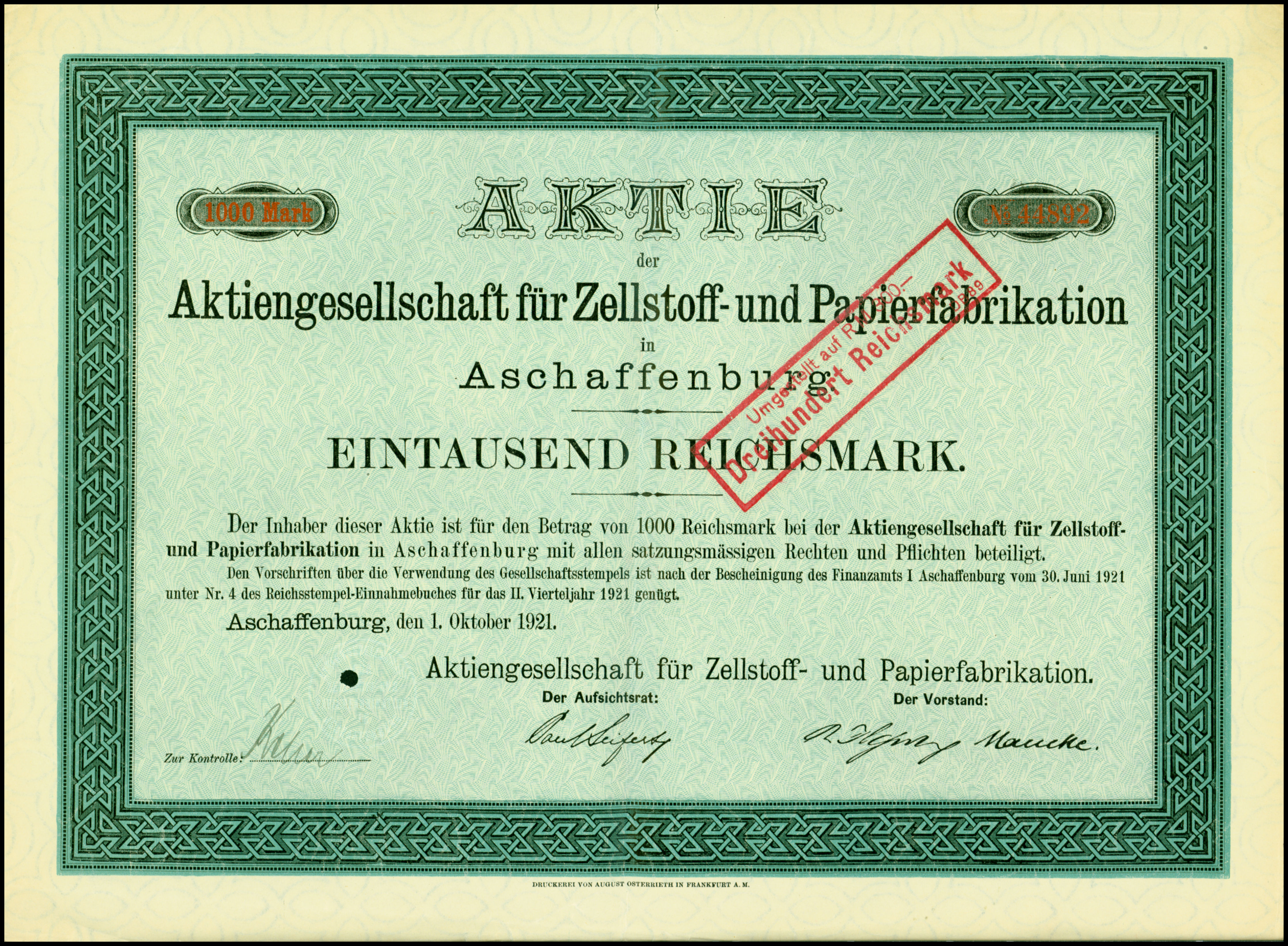 Share of the AG für Zellstoff- und Papierfabrikation in Aschaffenburg, issued 1. October 1921